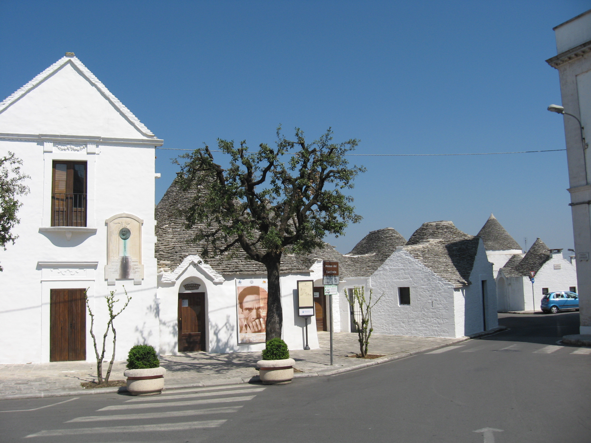 Rione Aia Piccola